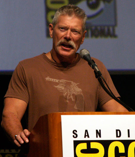 Stephen Lang promoting the 2009 film Avatar at San Diego Comic-Con.